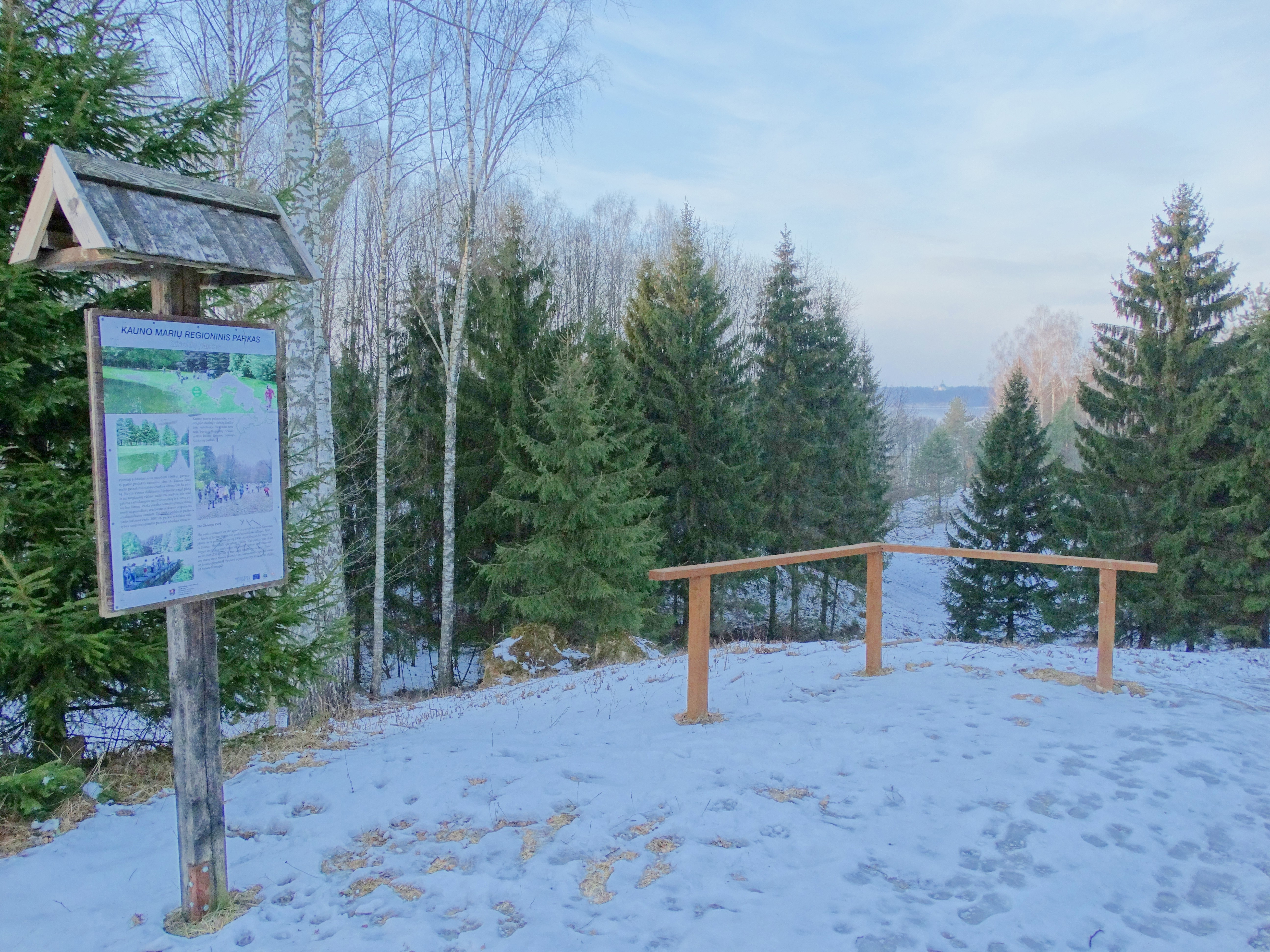 Girionys Park, Kaunas District, Lithuania